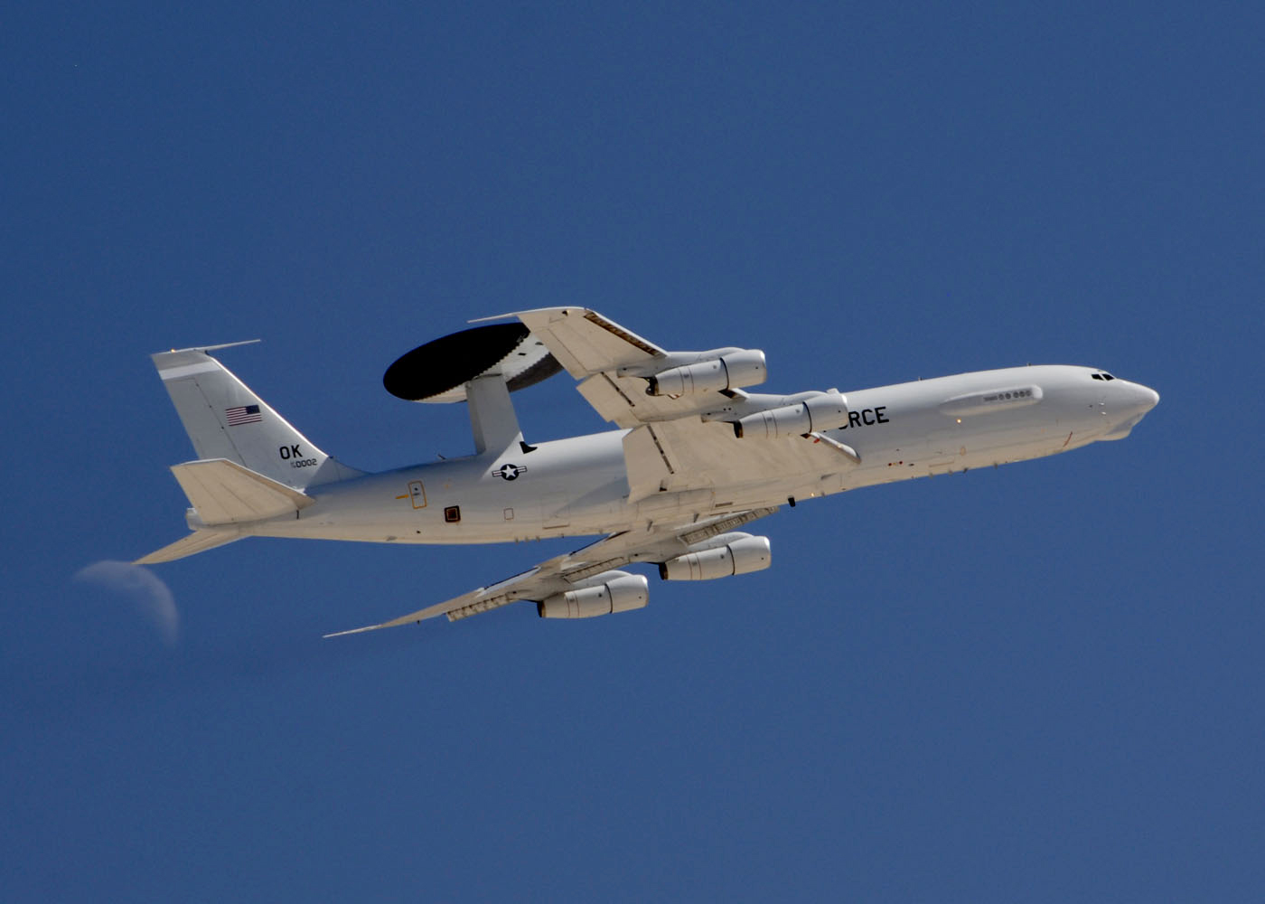 An E-3 Sentry AWACS aircraft takes off from Nellis Air Force Base, Nev., Aug. 25 while participating in a Red Flag exercise. Red Flag offers pilots and ground crews training in actual wartime scenarios to increase their combat skills.